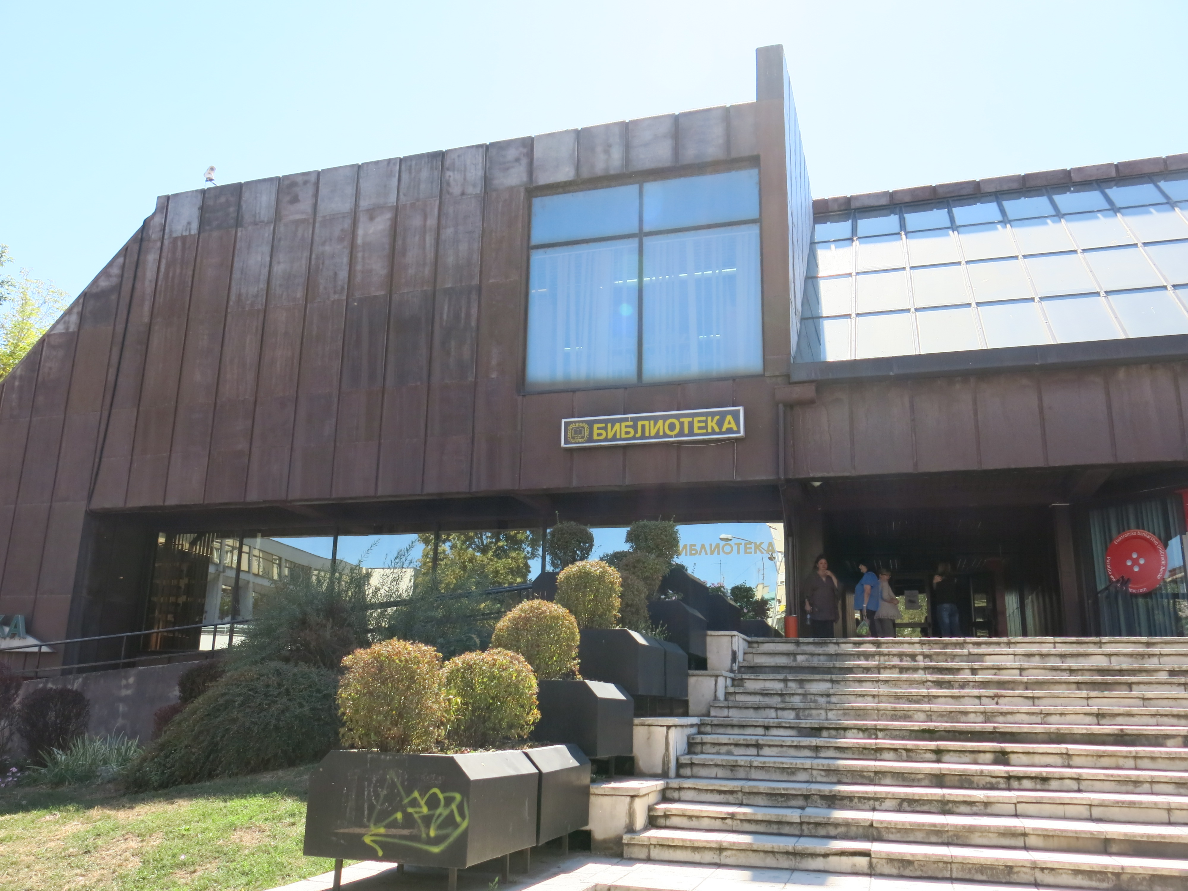 Smederevo, Public library